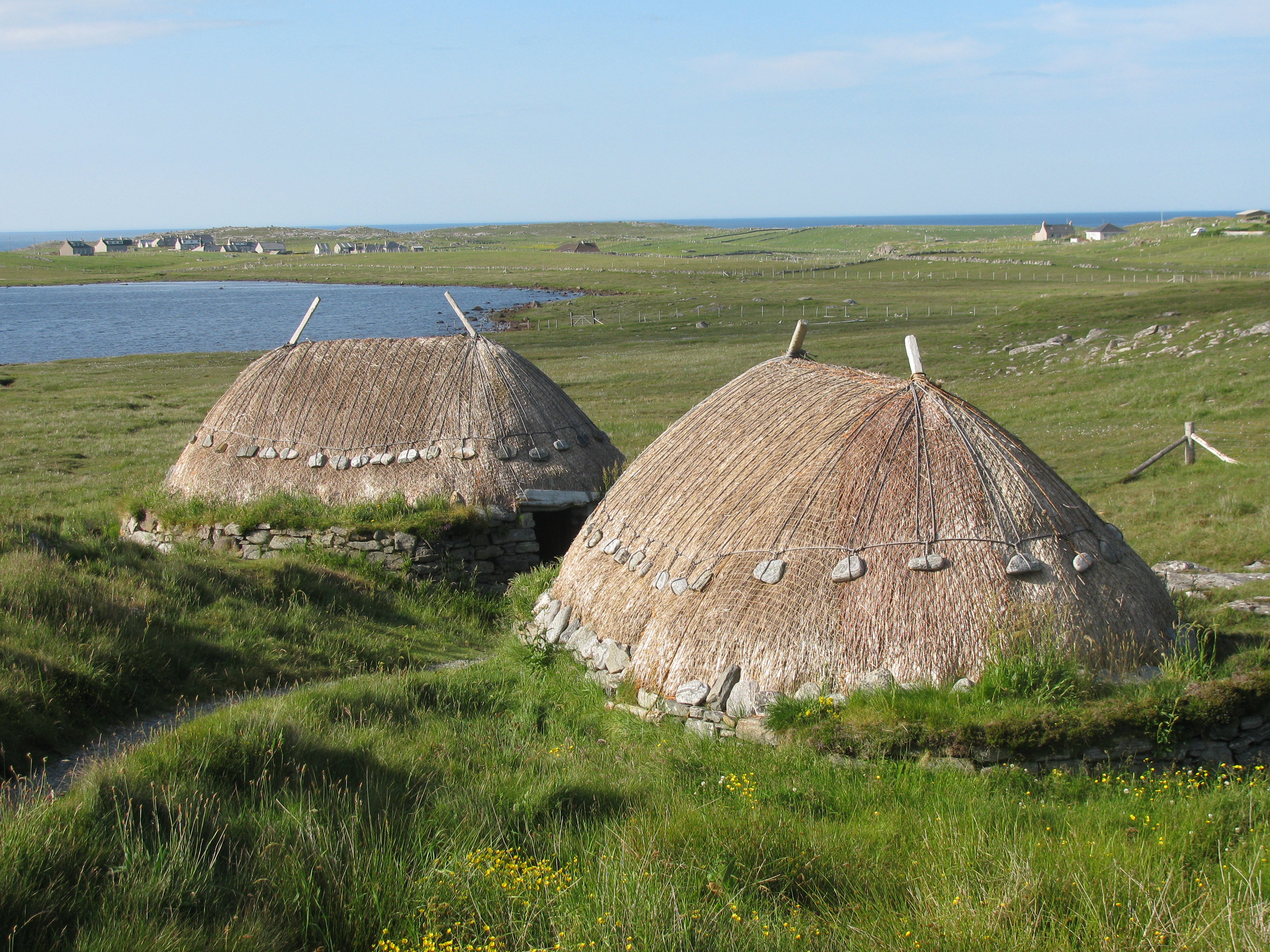 Reconstructed Norse mill and kiln at Shawbost, Lewis, Scotland. Further information available.